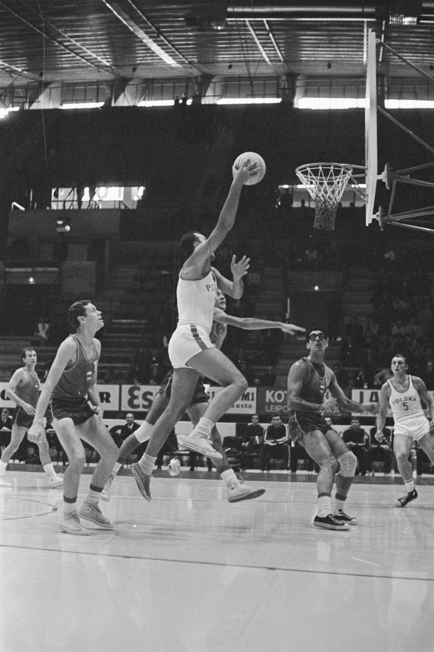 European basketball championship 1968 in Helsinki, Spain vs Poland